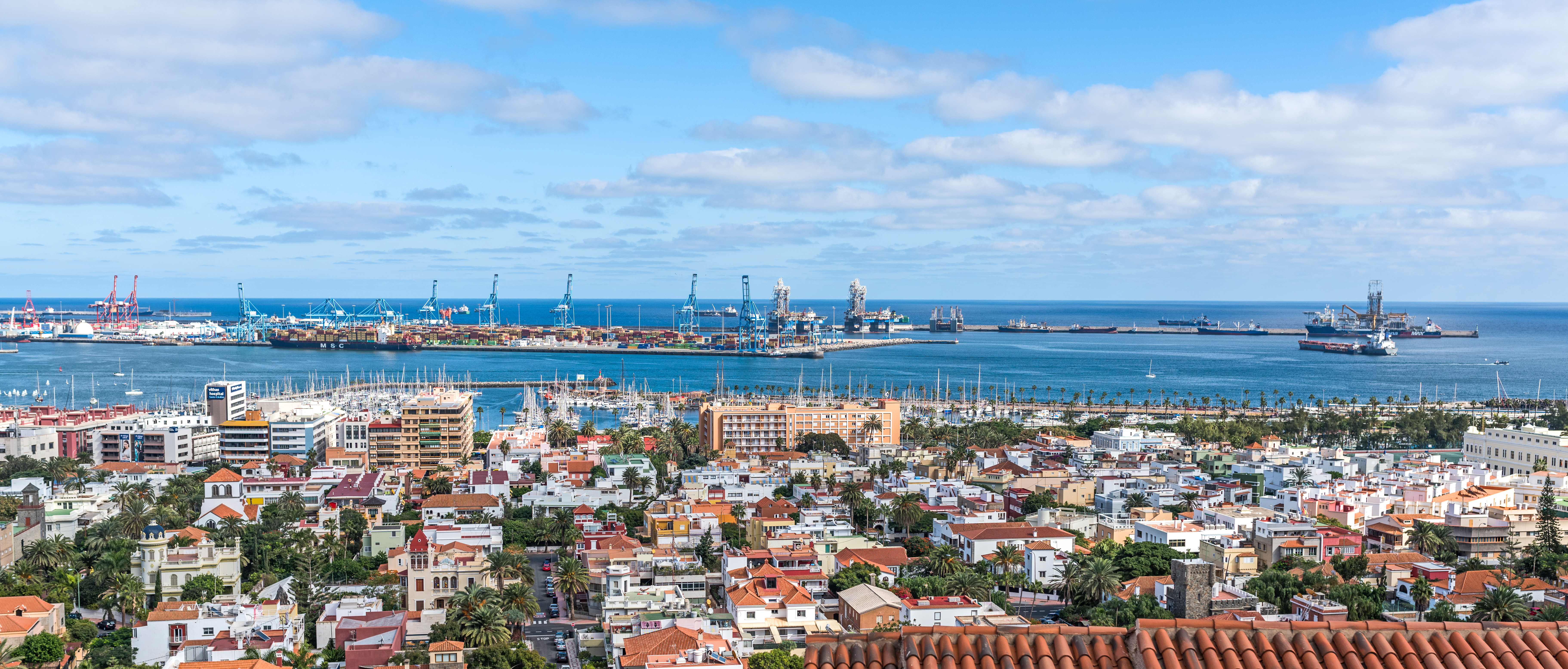 Las Palmas Gran Canaria January 2016